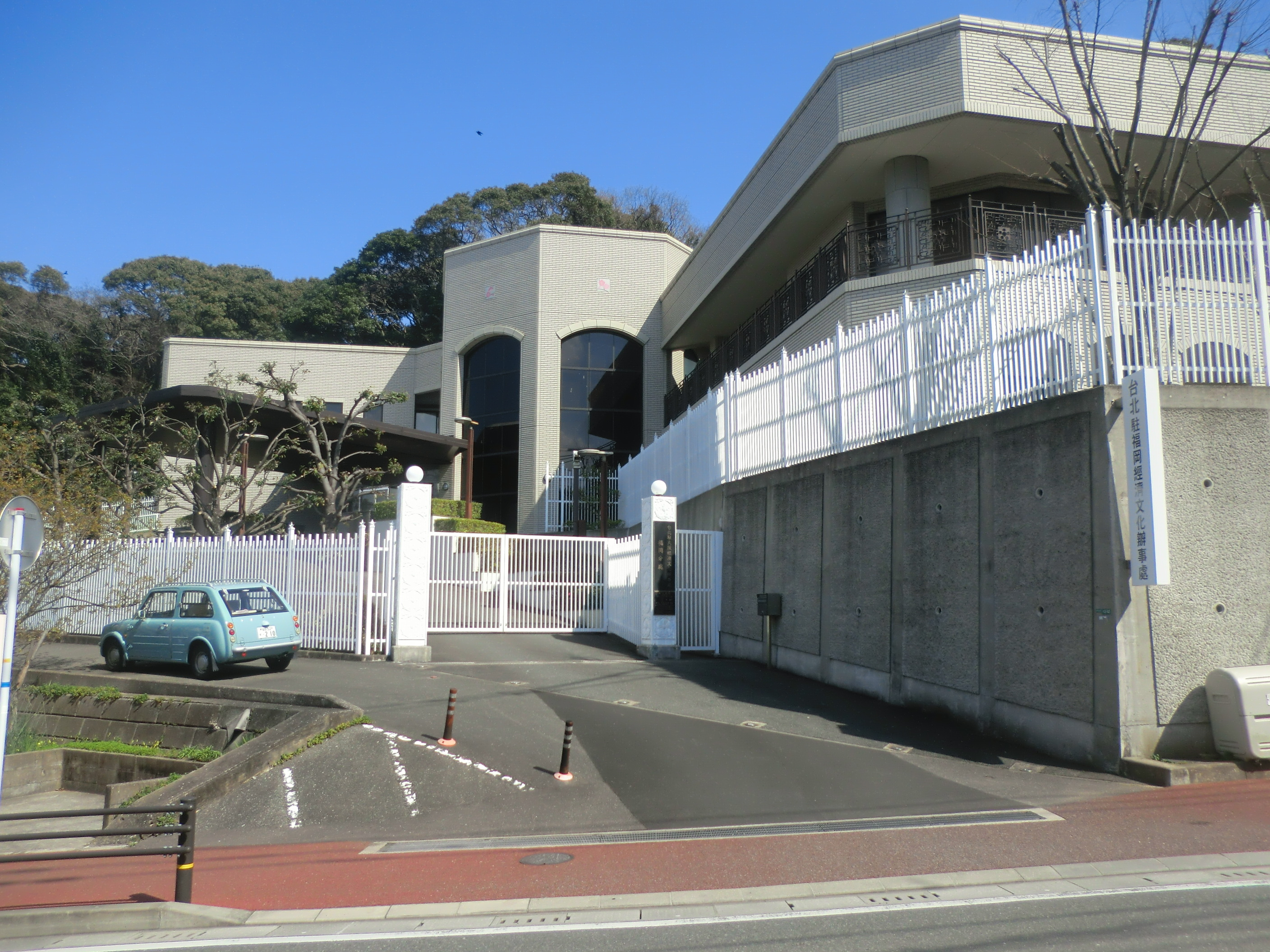 Fukuoka Branch, Taipei Economic and Cultural Office in Osaka at Fukuoka, Fukuoka, Japan.